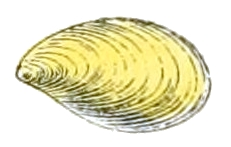 drawing of the shell of Hyalimax pellucidus. In the source book named as Hyalimax pellucidus Quoy and Gaim from East Indies.